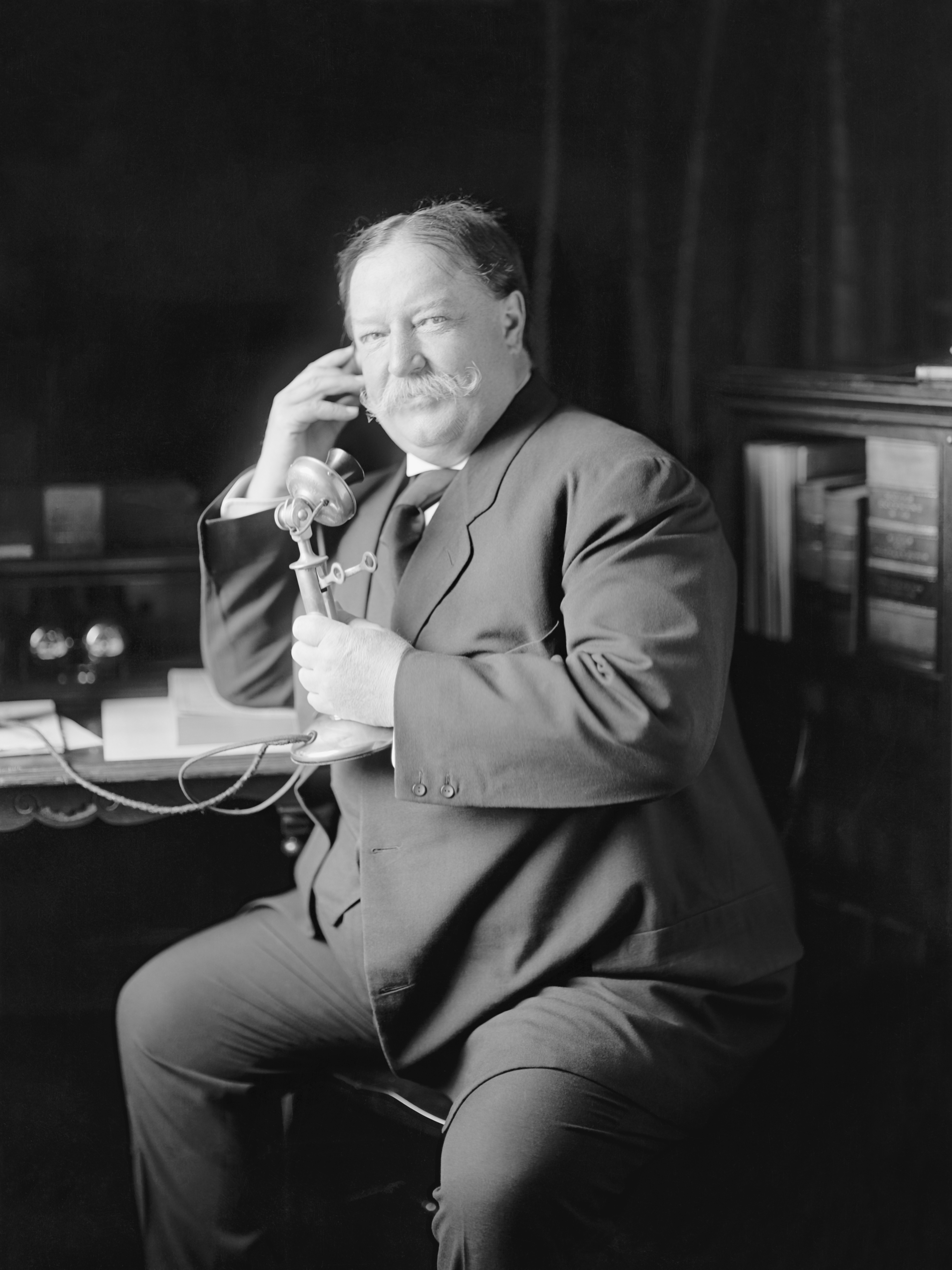 Photograph of William Howard Taft, copyrighted in 1909, taken by George W. Harris of the Washington, DC firm Harris & Ewing. The Harris & Ewing collection was donated to the Library of Congress, with copyright and donation restrictions now expired. Black, white and tattered borders trimmed for upload. Missing part of glass negative (upper left hand corner) left untouched. This is almost certainly part of a famous series of photos, described on the National Register of Historic Places nomination form for the Harris & Ewing Building (studio) [1] "Among Harris's most famous photographs was a candid series of William Howard Taft called "The Evolution of a Smile." Taft had just finished sitting for a formal portrait when he answered the telephone and learned from President Roosevelt that Taft had been nominated as the Republican candidate for President. Harris captured his reaction on film at a time when candid pictures were almost unknown."